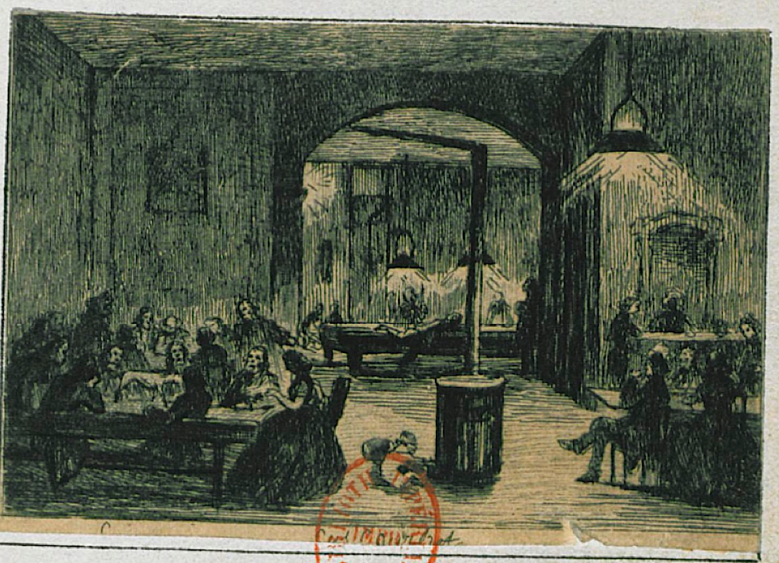 Cabaret Andler-Keller by Gustave Courbet [signed] from Histoire anecdotique des cafés et cabarets de Paris by Alfred Delvau, published in Paris, by E. Dentu in 1862. It is not clear if this image is an etching made by Courbet or after a sketch by Courbet.